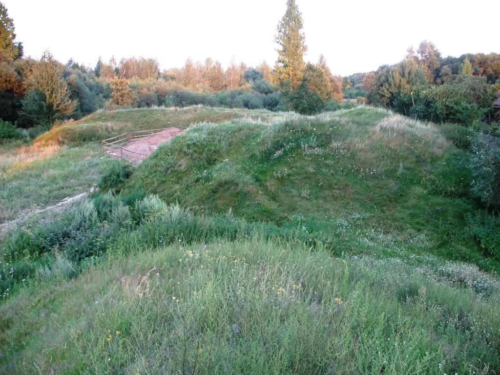 Hlusk_Castle_Belarus Глускі замак, паўднёвы бастыён